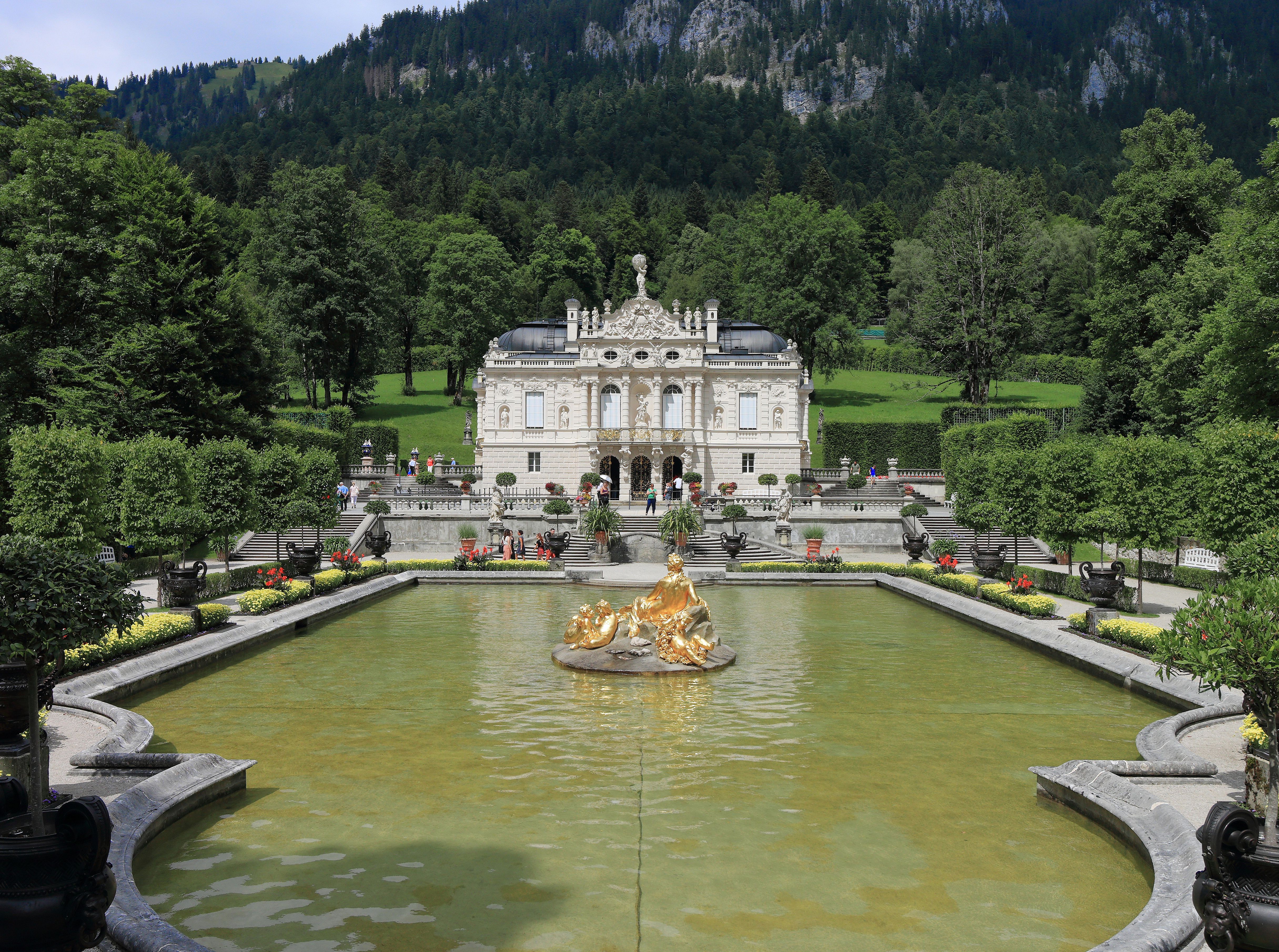 Linderhof Palace is a Schloss in southwest Bavaria near Ettal Abbey. It is the smallest of the three palaces built by King Ludwig II. of Bavaria and the only one which he lived to see completed.